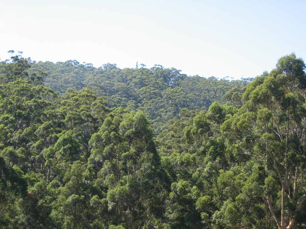 Karri forests south of Pemberton, Western Australia.